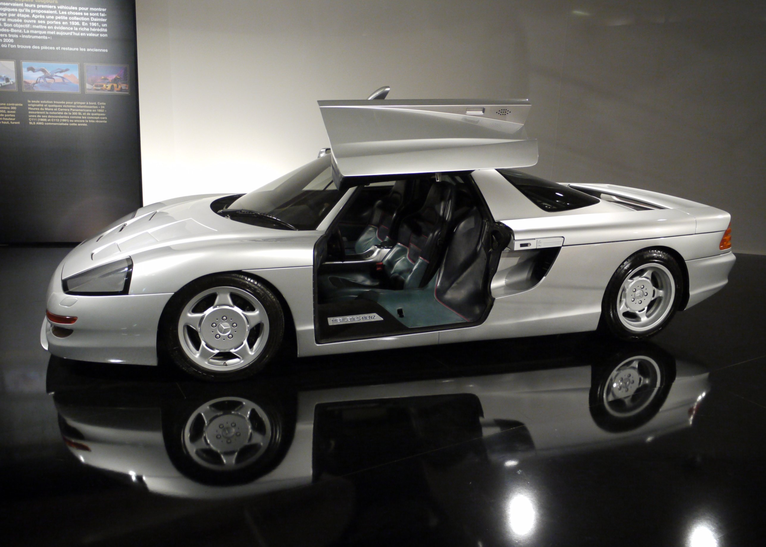 1991 Mercedes-Benz C 112 concept. Spec.: - V12 engine - 5987 cc - 408 bhp - Top speed: 310 Km/h (193 mph)